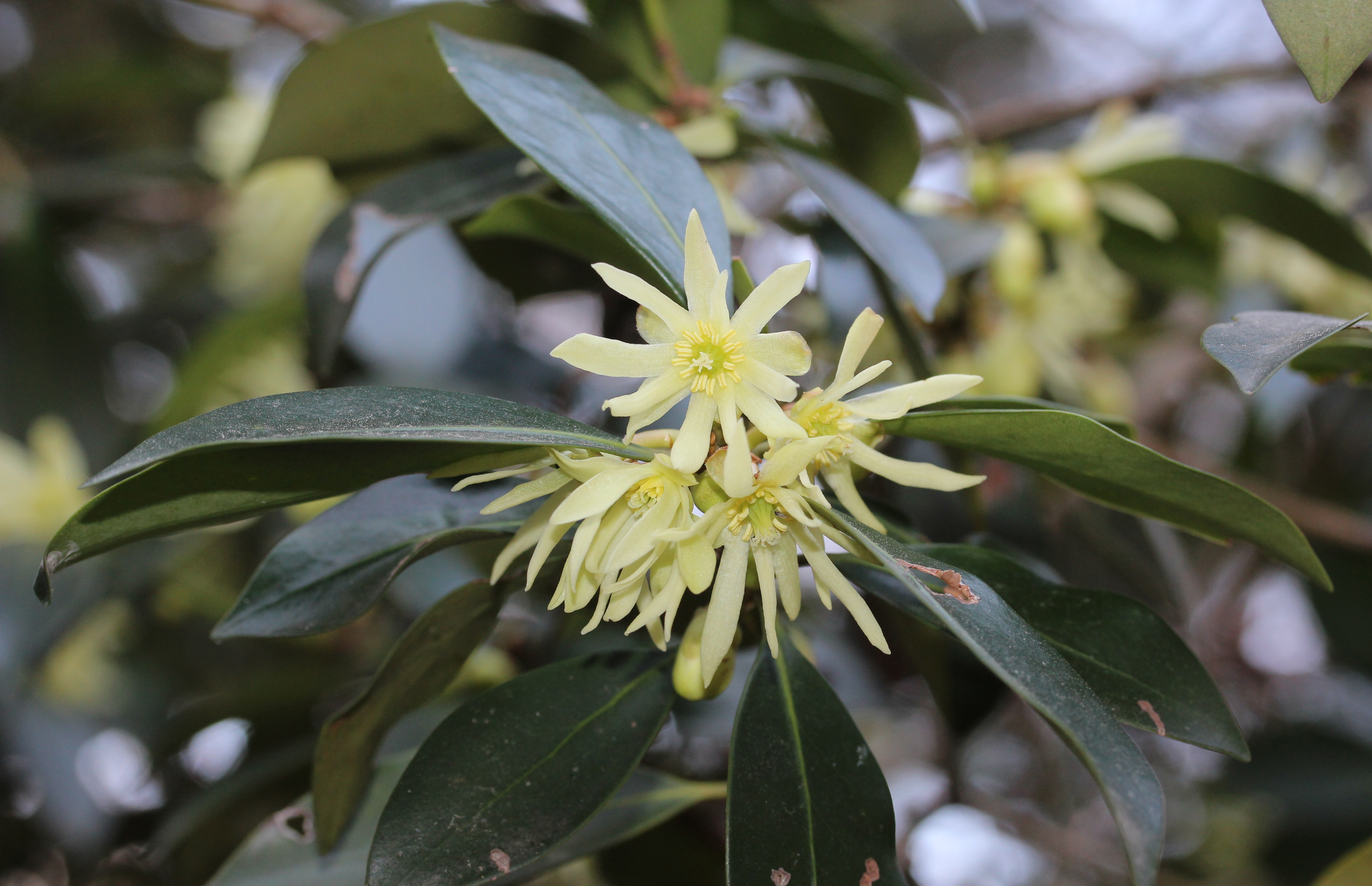 Illicium anisatum (Japanese star anise) in Yōrō Mountains, Kaizu, Gifu prefecture, Japan.